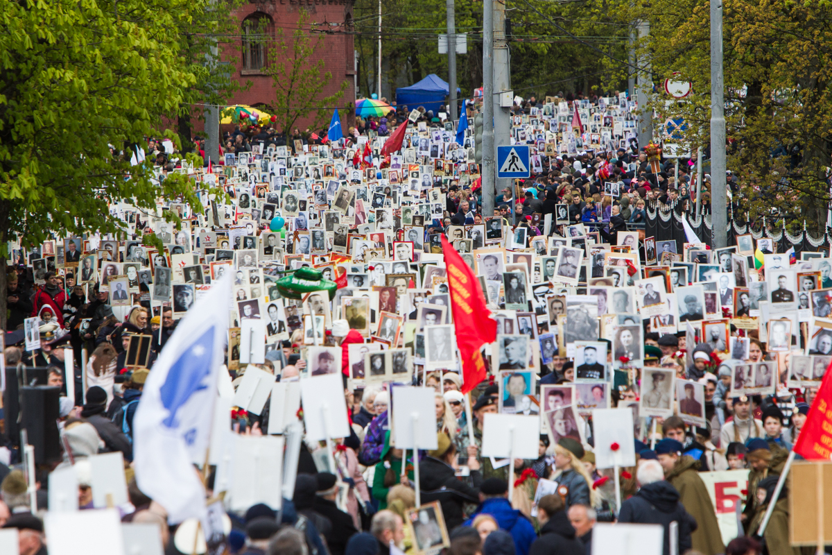 Victory Day in Kaliningrad 2017-05-09